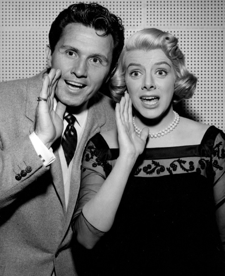 Publicity photo of John Raitt and Rosemary Clooney from the television program The Lux Show featuring Rosemary Clooney.